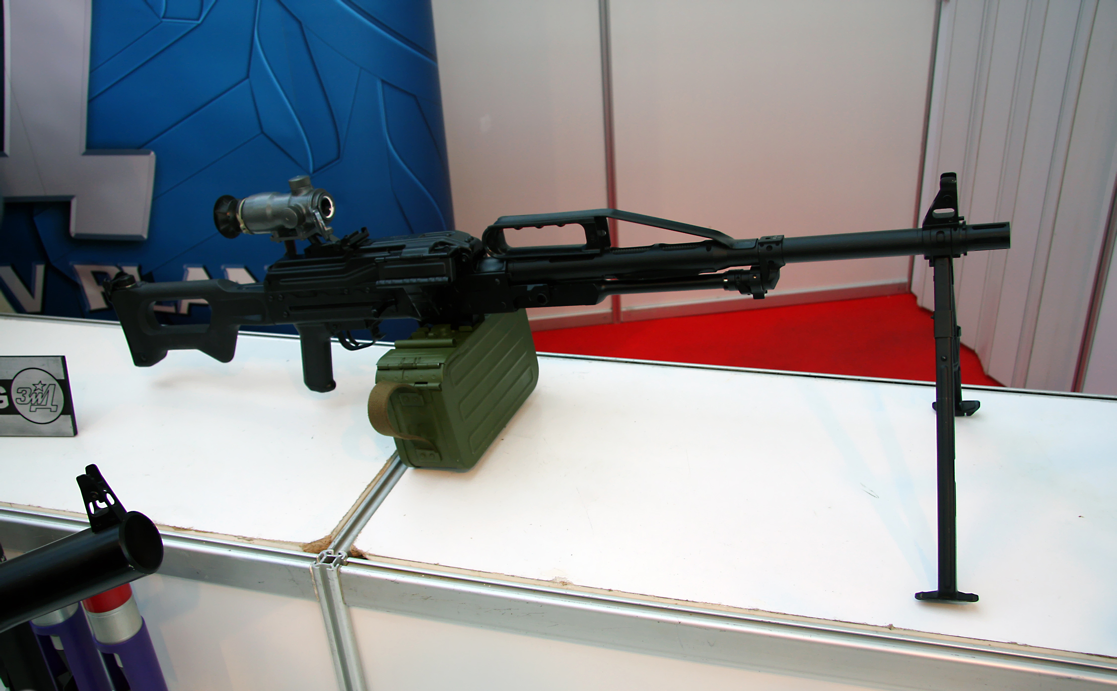 PKP Pecheneg in IDELF-2008